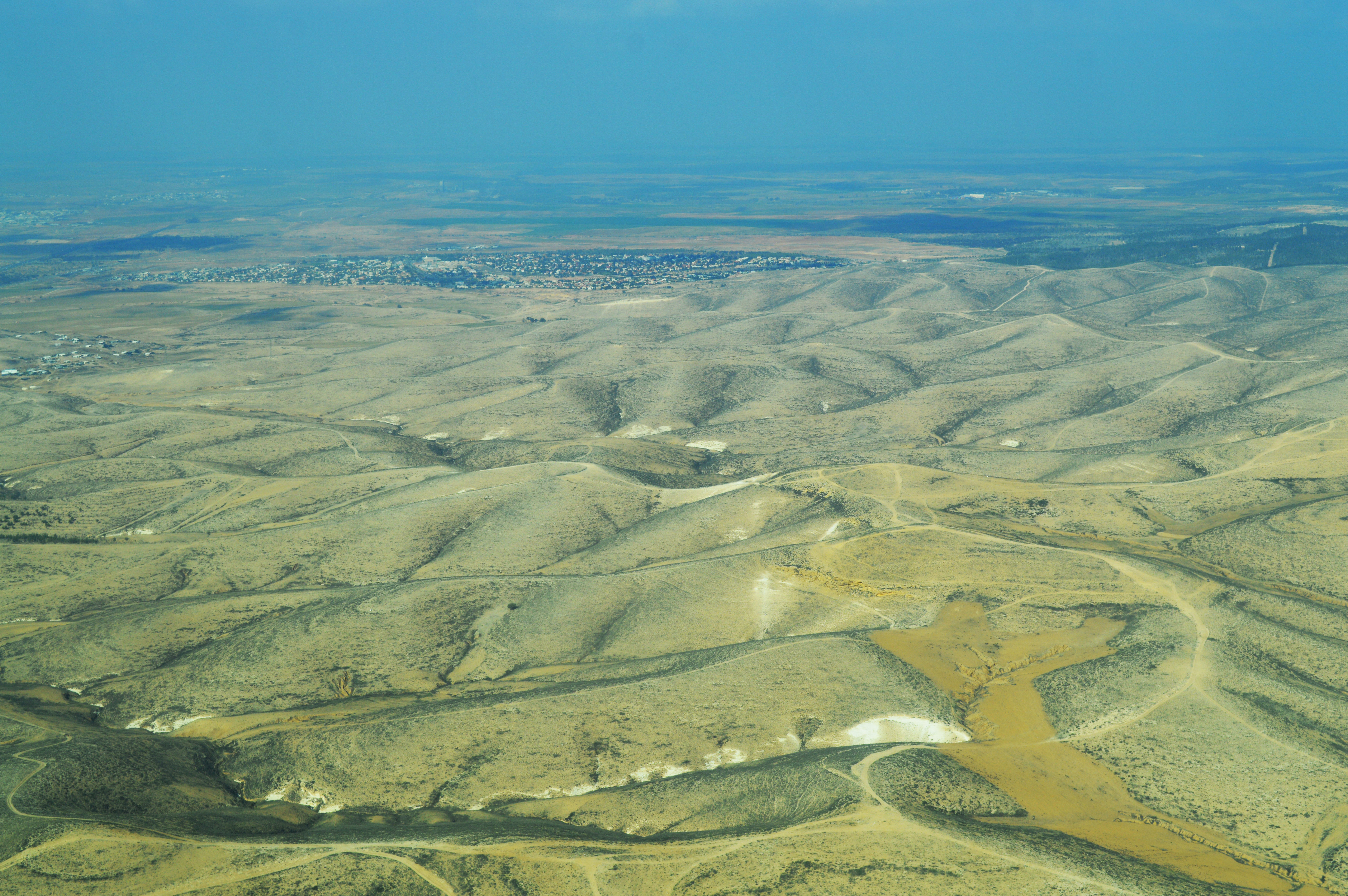 Gevaot Goral Aerial View